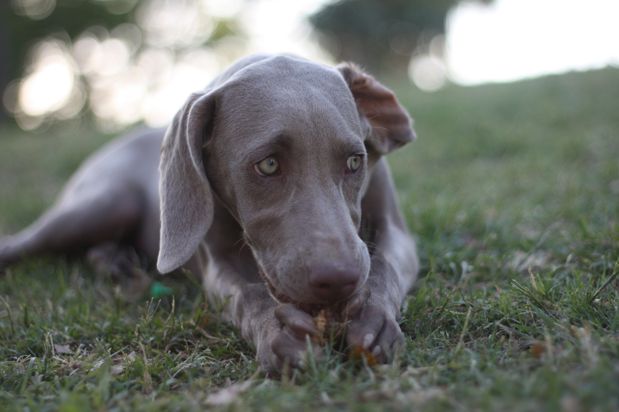 A Weimaraner lying on the grass